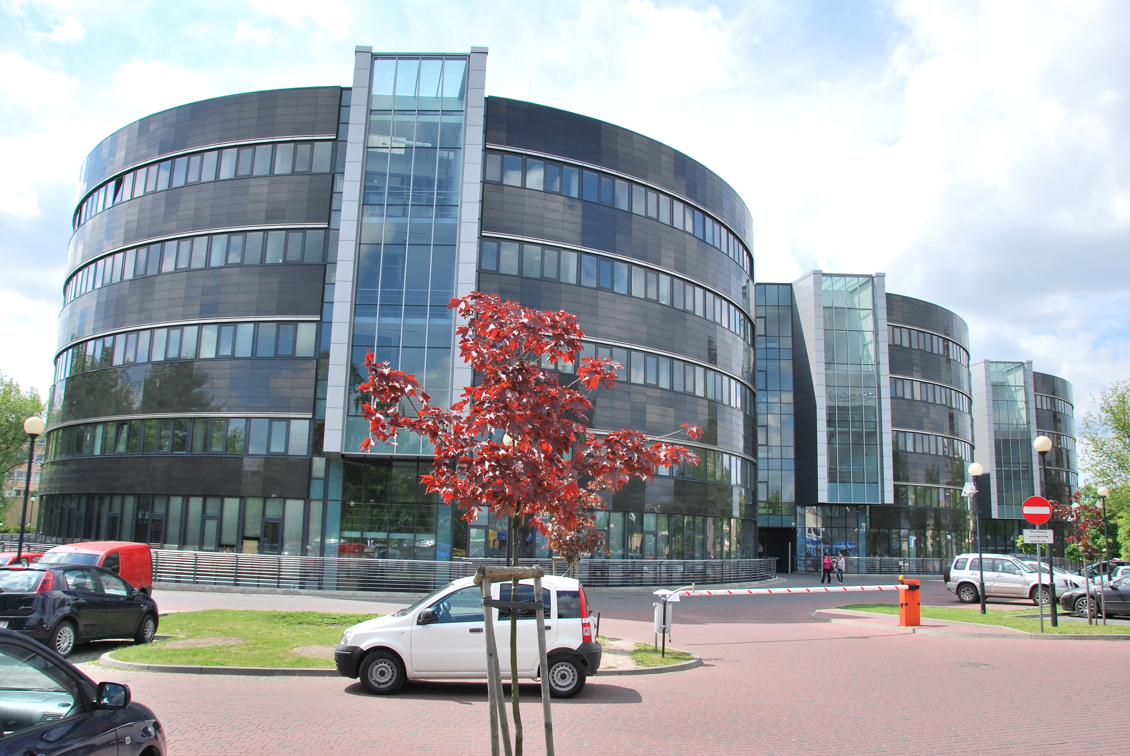 Collegium Iuridicum - Paragraph Building, Łódź Solidarności Roundabout